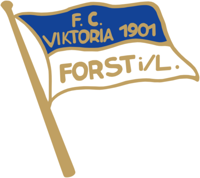 Logo of FC Viktoria Forst, German football team.